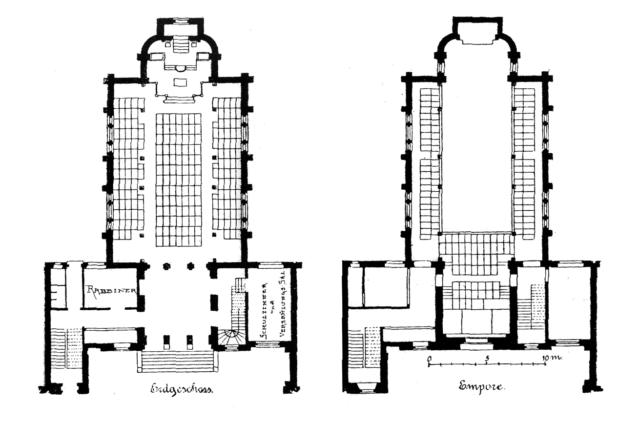 Floor plan Synagogue of Wuppertal-Barmen, 1894/95